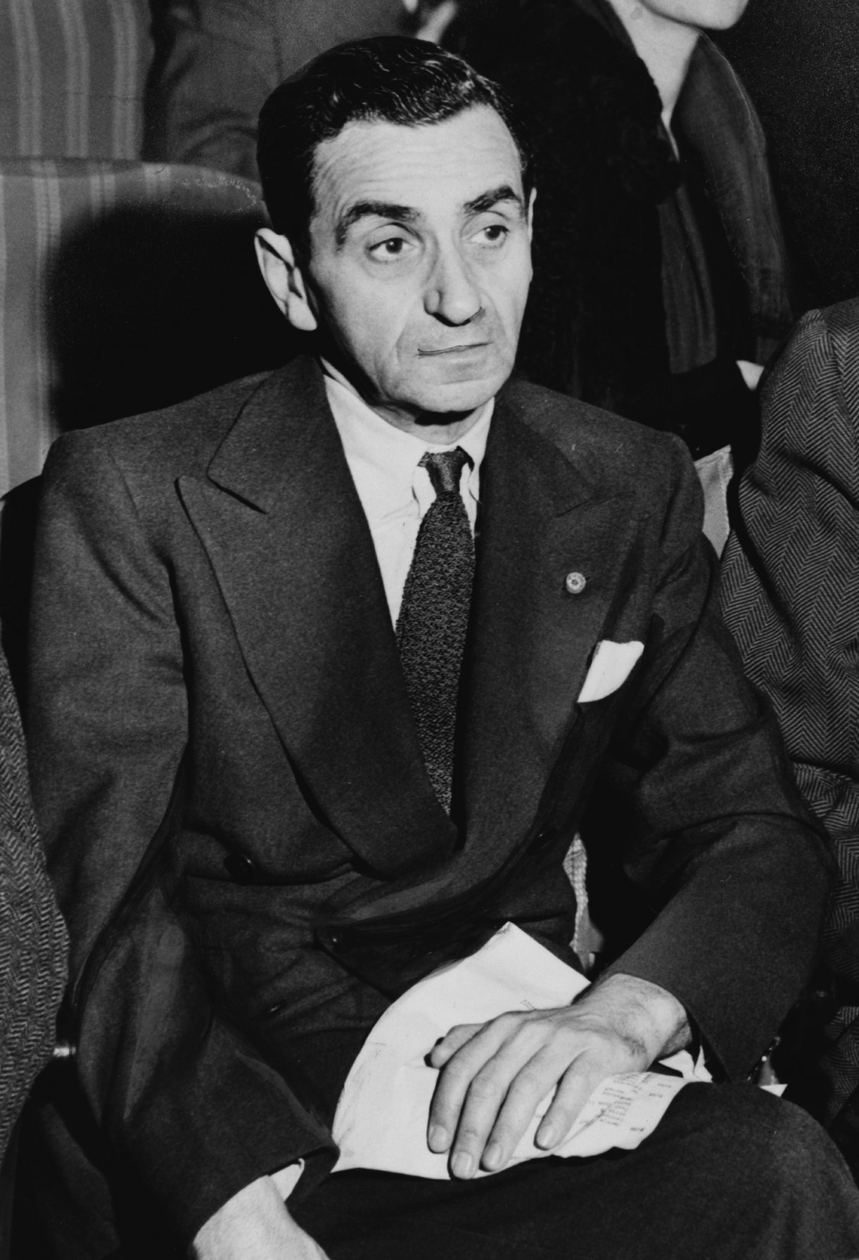 Irving Berlin, from a larger photo of him with Rodgers and Hammerstein and Helen Tamiris, watching auditions on stage of the St. James Theatre